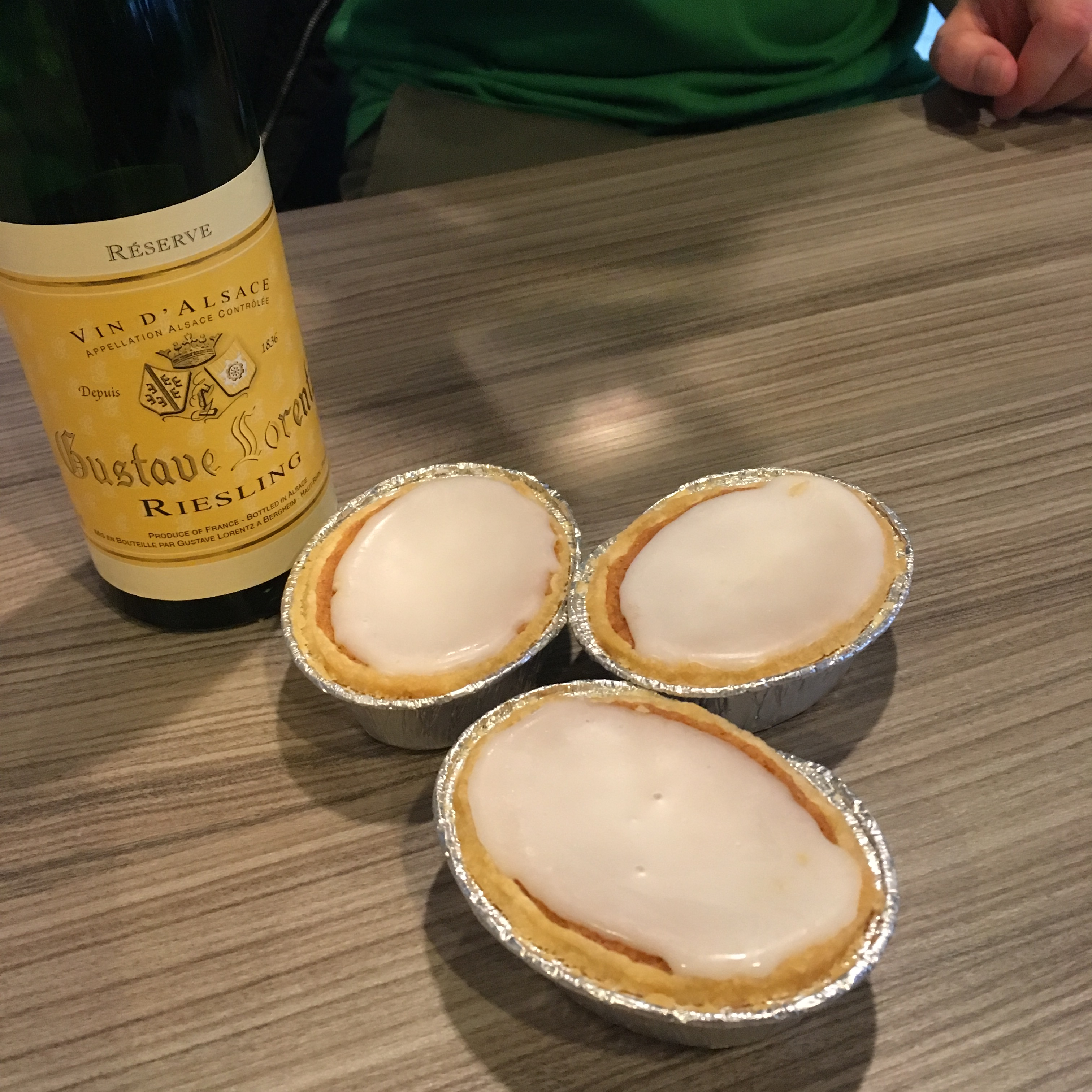 Mazarin, traditional Swedish cupcake